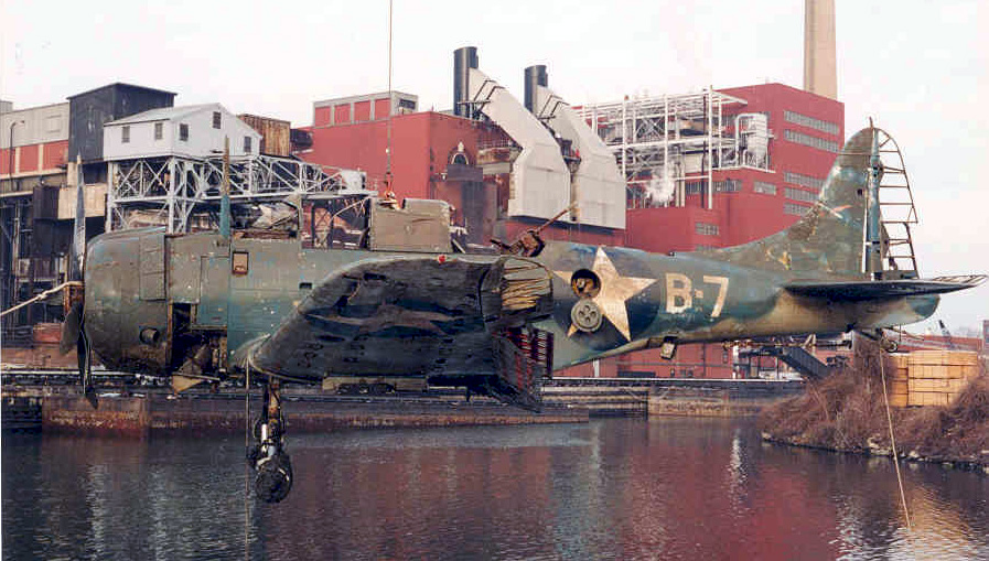 A U.S. Navy Douglas SBD-2 Dauntless after being raised from Lake Michigan in 1994. It is on display at the U.S. National Museum of Naval Aviation at Pensacola, Florida (USA), since 2001. Official description: "Rolling off the Douglas Aircraft Company assembly line in El Segundo, California, in December 1940, SBD-2 Dauntless (BuNo 2106) was delivered to bombing squadron VB-2 at Naval Air Station (NAS) San Diego, California, on the last day of 1940. On 10 March 1942, flown by Lt(jg) Mark T. Whittier with AR2C Forest G. Stanley as his gunner, the aircraft joined 103 other planes from USS Lexington (CV-2) and USS Yorktown (CV-5) in a raid against Japanese shipping at Lae and Salamaua in New Guinea. It was then transferred to Marine scout bombing squadron VMSB-241 on Midway Atoll, arriving there with eighteen other SBD-2s on 26 May 1942, on board the aircraft transport USS Kitty Hawk (APV-1). On the morning of 4 June 1942, with 1st Lt Daniel Iverson as pilot and PF1c Wallace Reid as rear gunner, the aircraft was one of sixteen SBD-2s of VMSB-241 launched to attack Japanese aircraft carriers to the west of Midway. After unsuccessfully attacking the carrier Hiryu, enemy fire holed the plane 219 times. It was one of only eight SBD-2s of VMSB-241 to return from the attack against the Japanese fleet. Returned to the US, it was repaired and eventually assigned to the Carrier Qualification Training Unit (CQTU) at NAS Glenview, Illinois. On the morning of 11 June 1943 Marine 2nd Lt Donald A. Douglas Jr. ditched the aircraft in the waters of Lake Michigan during an errant approach to the training carrier USS Sable (IX-81). Recovered in 1994, the aircraft underwent extensive restoration at the museum before being placed on public display in 2001. Elements of its original paint scheme when delivered to the fleet are still visible on its wings and tail surfaces." (shortened)